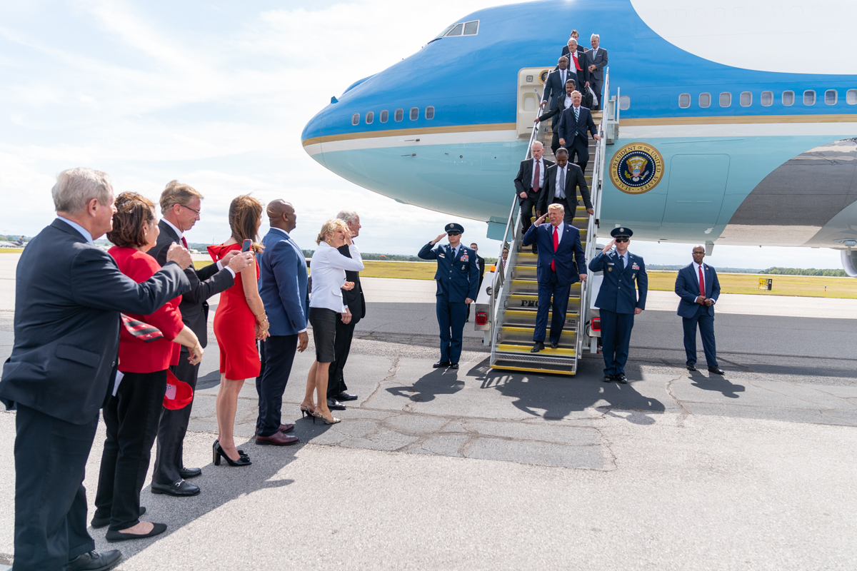 President Donald J. Trump disembarks Air Force One at Columbia Metropolitan Airport in Columbia, S.C. Friday, Oct. 25, 2019, and is greeted by South Carolina Gov. Henry McMaster and his wife Peggy McMaster, U.S. Senator Tim Scott-S.C., South Carolina Lt. Gov. Pamela Evette and her husband David Evette. (Official White House Photo by Shealah Craighead)